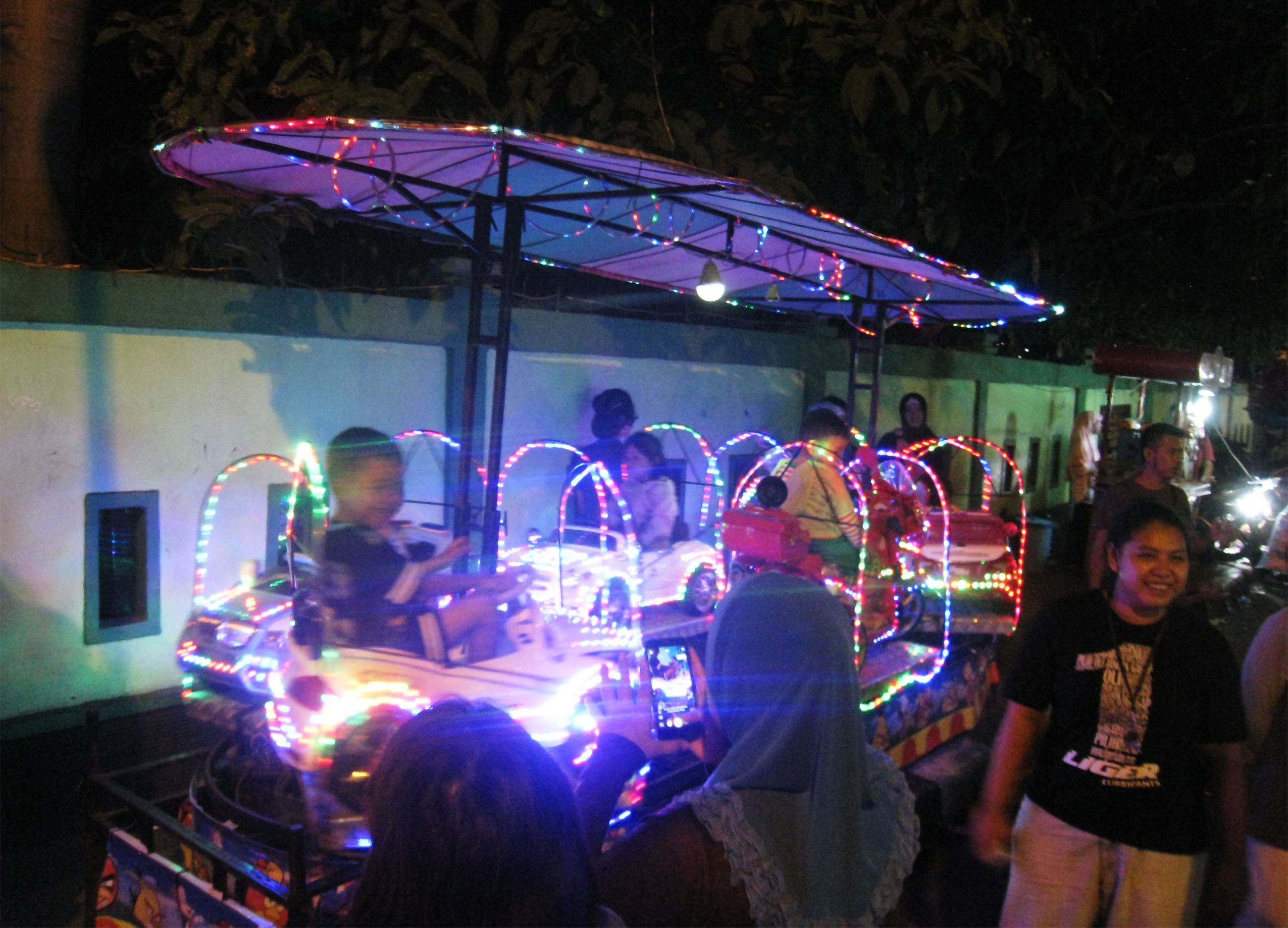 Shiny illuminated kiddy ride at Pasar Malam (night market) every Saturday night at Rawasari, Central Jakarta, Indonesia.